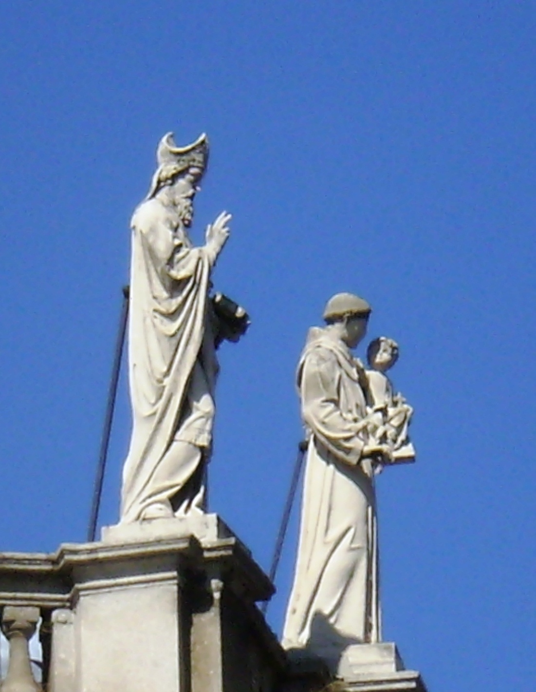 Church of San Francisco el Grande, Madrid, Spain